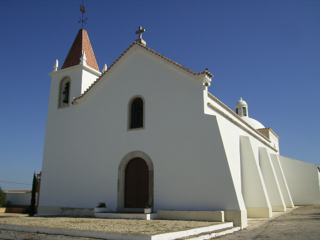 Church Matriz in Azinhal near Castro Marim, Algarve, Portugal